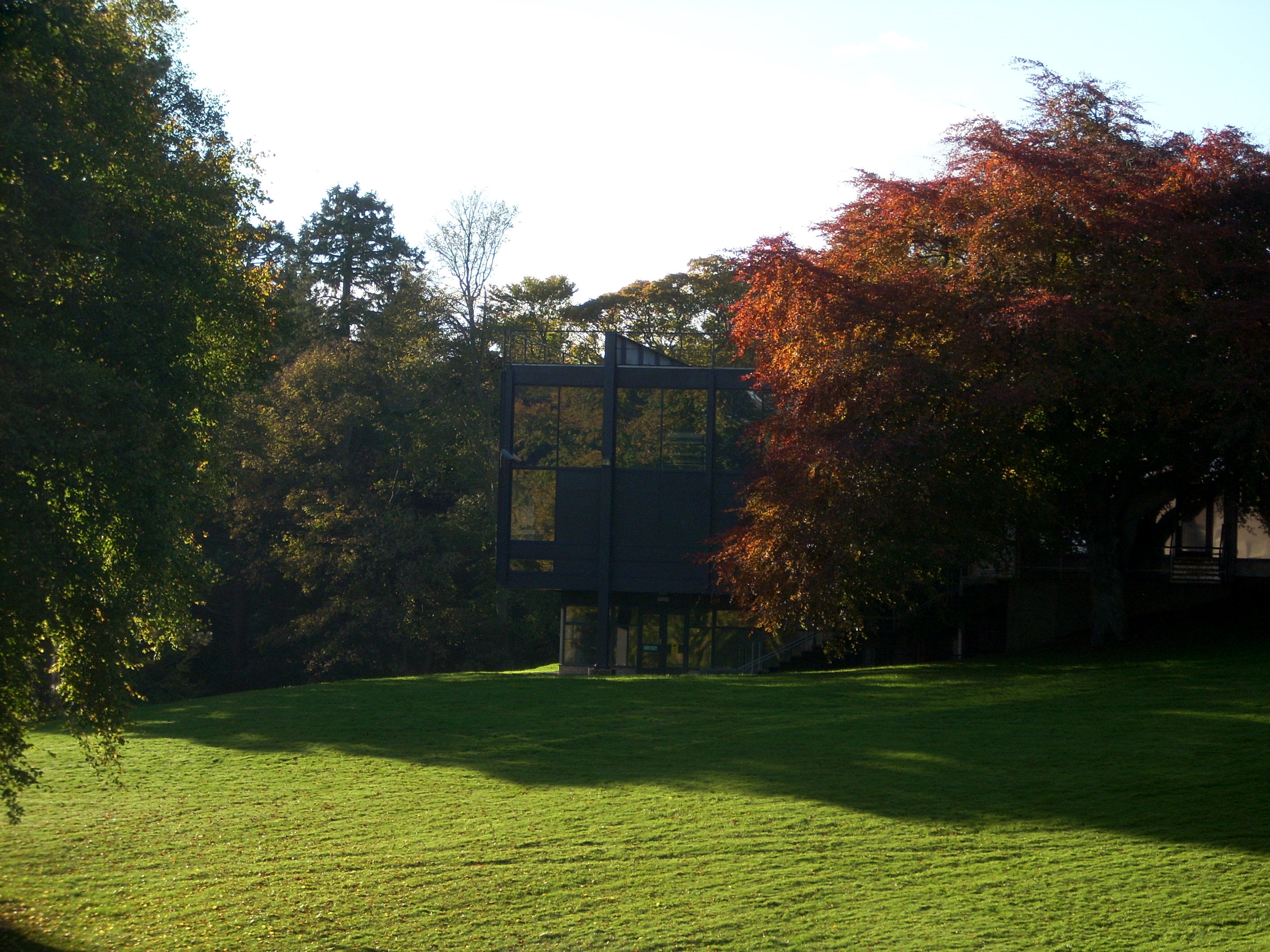 East wing of Gray's School of Art in autumn, as seen from lawn. At Garthdee campus of the Robert Gordon University, Aberdeen